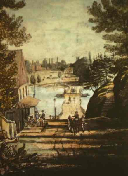 An eastward view of the floating bridge at Gray's Ferry south of Philadelphia drawn in 1816 by Joshua Rowley Watson (1772-1818). Original at the New York Historical Society. Reprinted from "Lower Bridge on Schuylkill at Gray's Ferry," in "Captain Watson’s Travels in America: the sketchbooks and diary of Joshua Rowley Watson, 1772-1818" by Kathleen A. Foster, (Philadelphia: University of Pennsylvania Press, 1997). Posted at